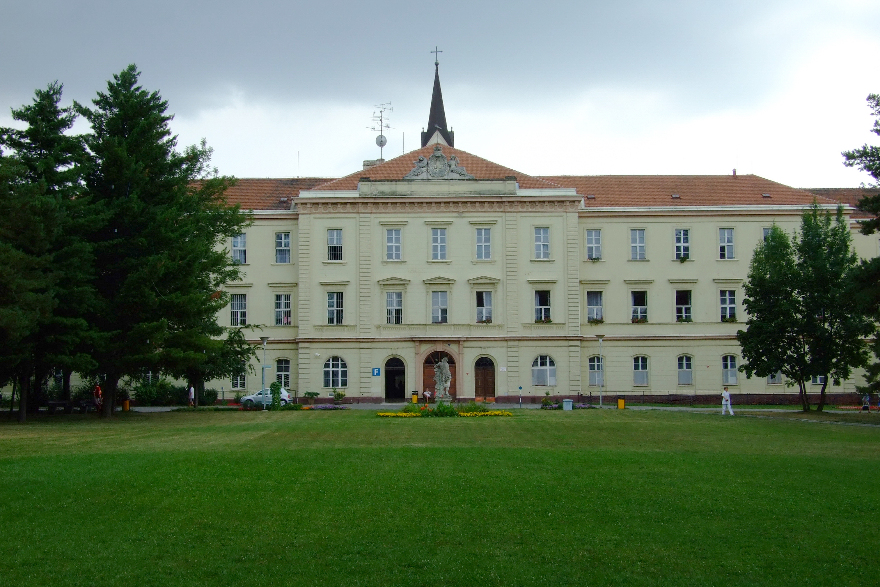 Brno-Černovice - main building of the Psychiatric Medical Institution Černovice from north